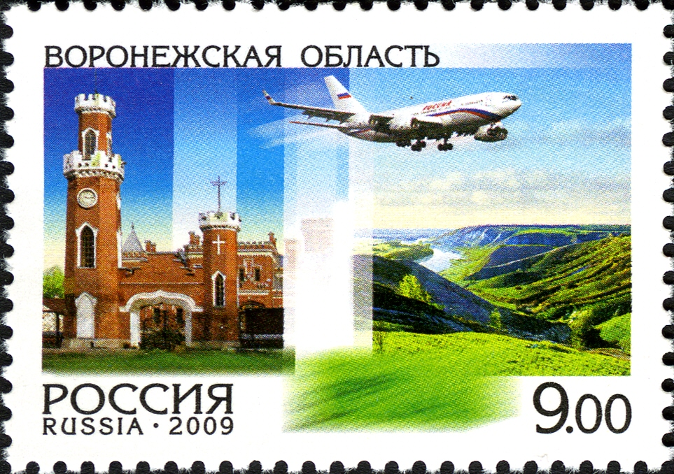 Stamp of the Russia, Voronezh Oblast, 2009.